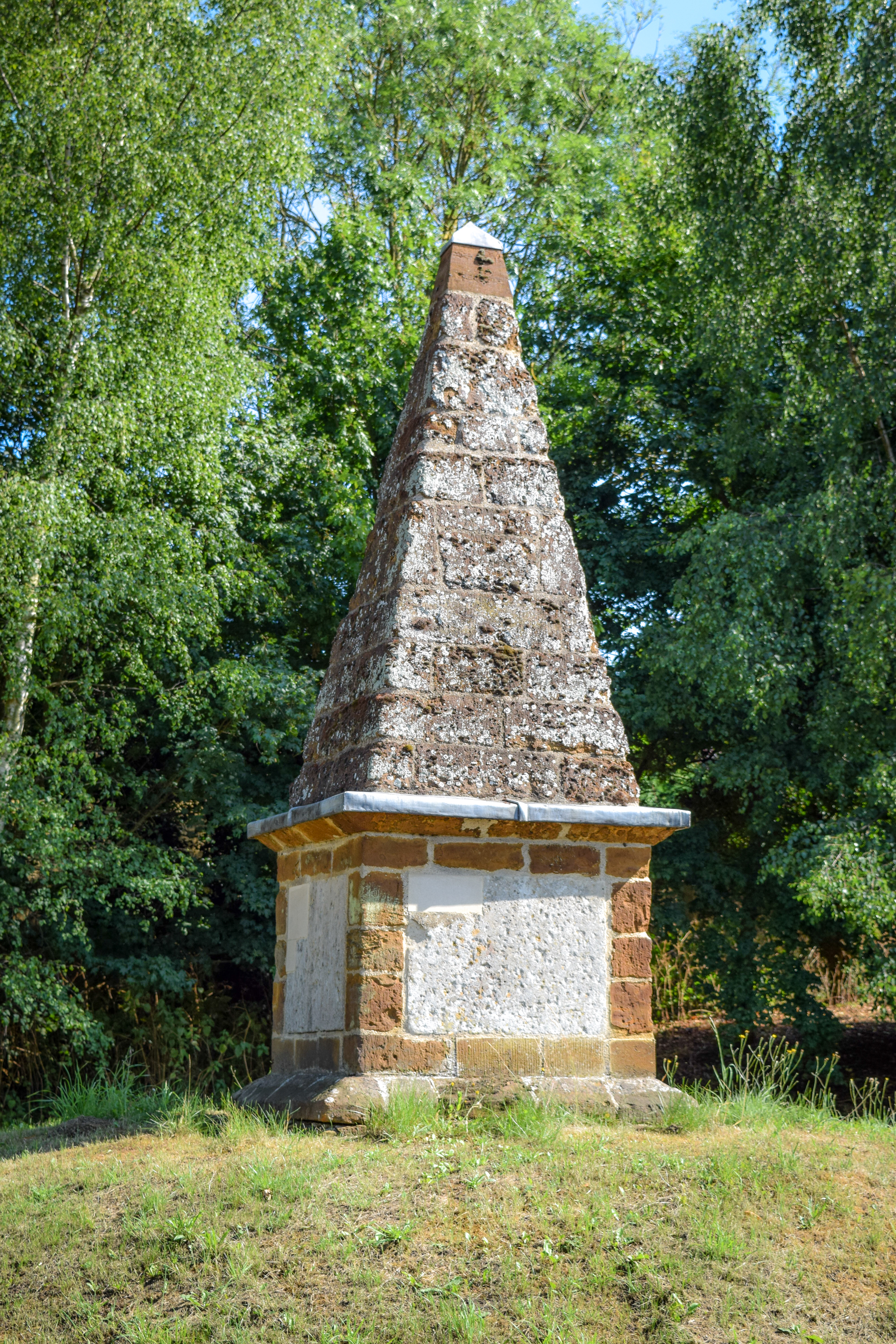 The Finedon Obelisk was erected in 1798 by John English Dolben Esq. as a way marker and to record the blessings of that year, which are thought to include the return to sanity of King George III.